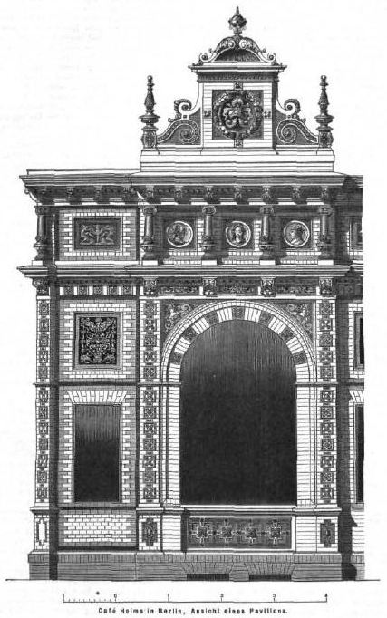 Sketch of the facade of a pavilion at Cafe Helms in Berlin, built 1882-1883